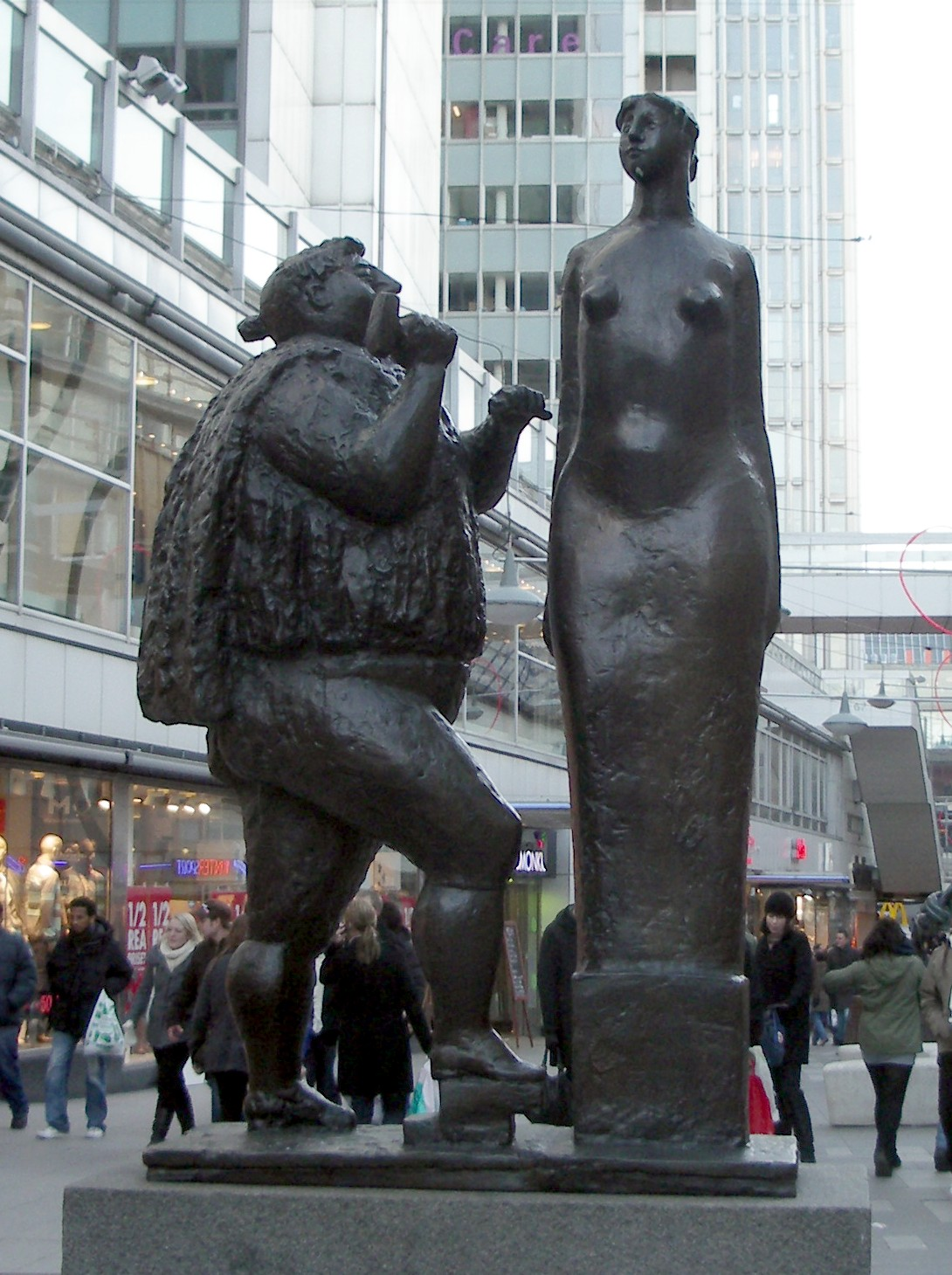 Göran Strååt´s Sergel, bronze, Stockholm, Sweden